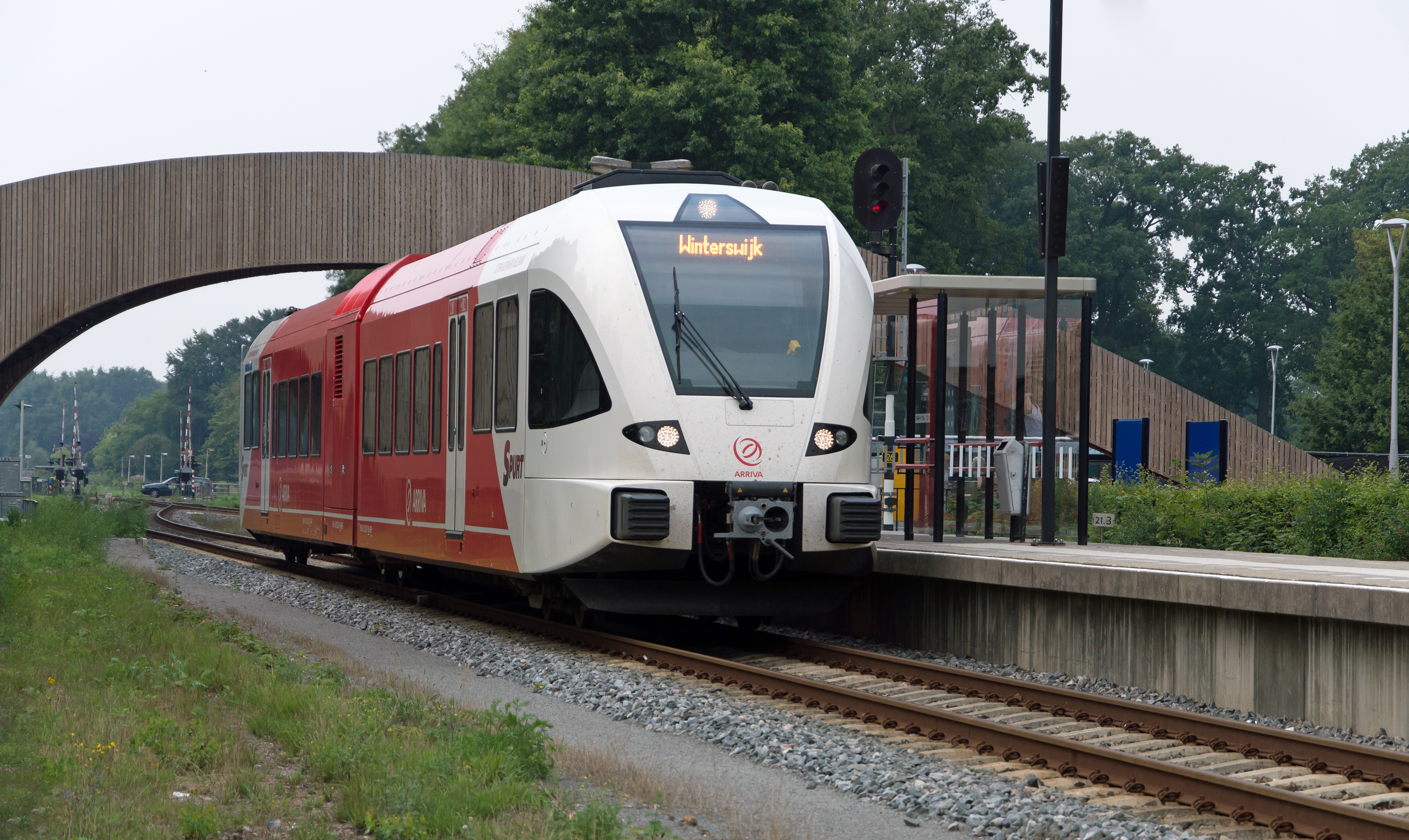 Ruurlo railway station with its characteristic wooden bridge. Arriva 252 has just arrived from Zutphen, heading for Winterswijk.